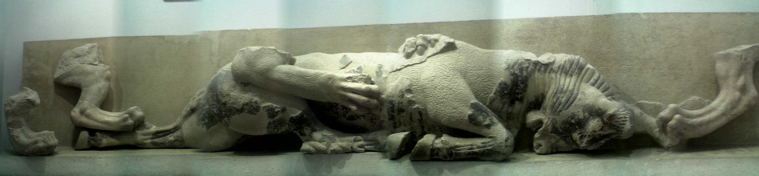 Two lions killing a bull in gruesome detail. Pediment from the older Parthenon, ancient temple of Athena in the Acropolis of Athens.